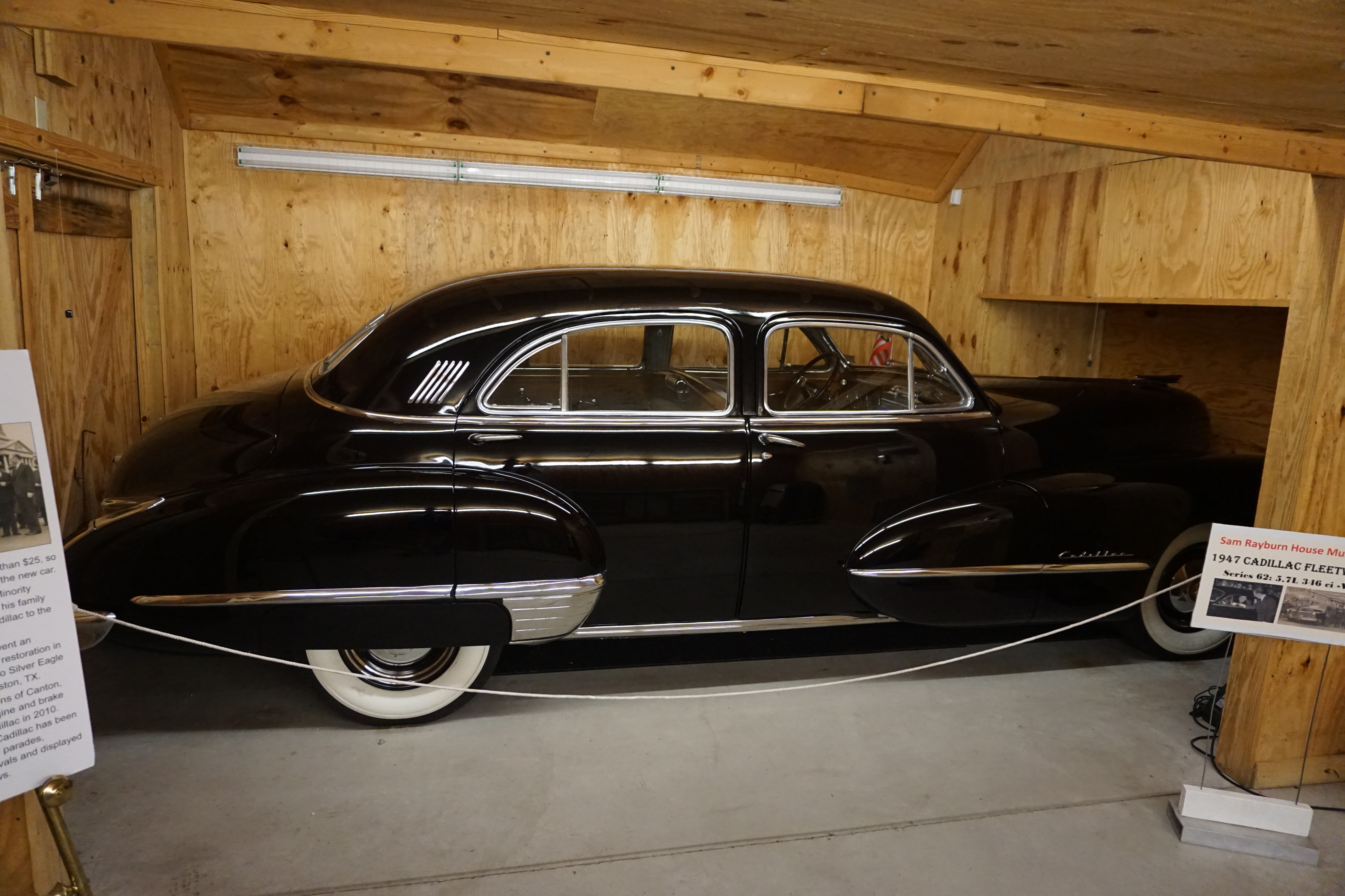 Sam Rayburn's 1947 Cadillac Fleetwood Series 62 at the Sam Rayburn House Museum in Bonham, Texas (United States).